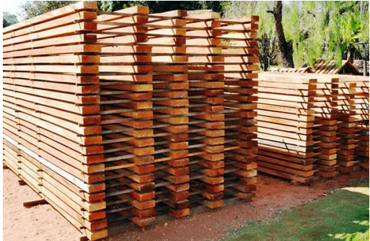 Secagem natural ao ar livre.